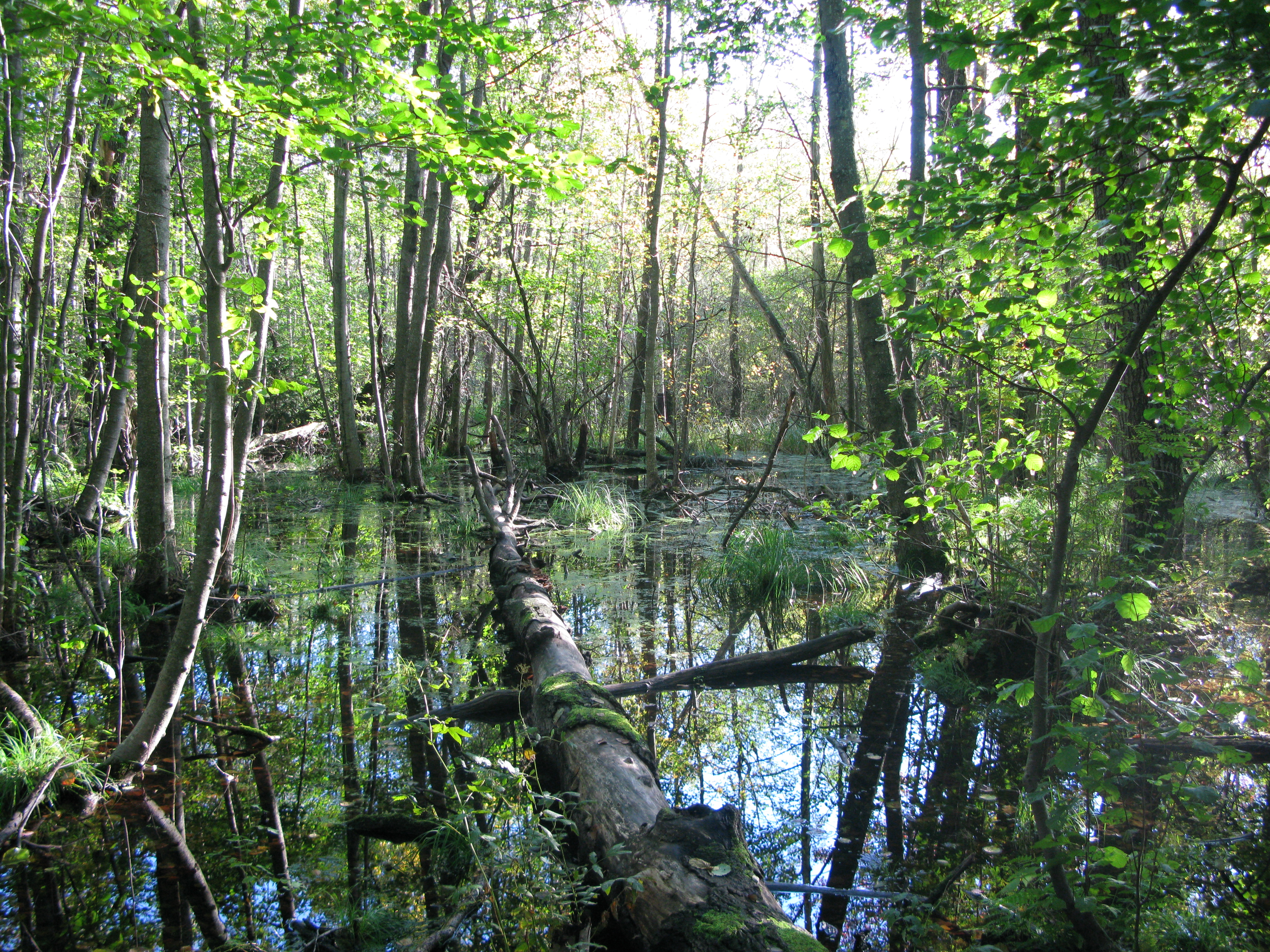 A swamp in Judarsskogen in Stockholm, Sweden